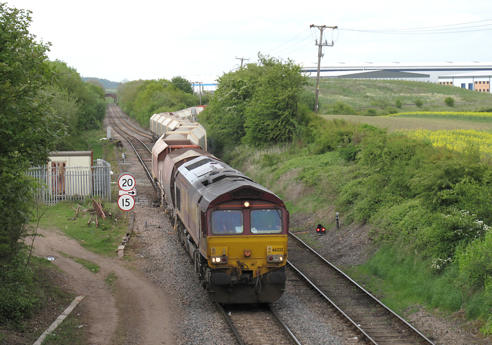 A train loaded with Granite chippings from the Stud Farm quarry (at Markfield) moves on to the former Leicester and Swannington Railway at Battleflat. Hauled by DB Schenker class-66 Co-Co 66232 (in EWS livery) the train is heading south to the London area.